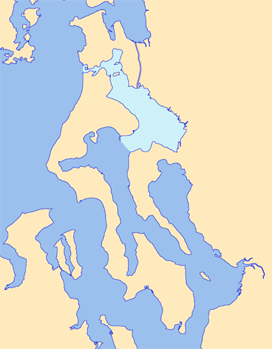 This is a locator map of Skagit Bay. I, Pfly, made it with ArcGIS and Photoshop.